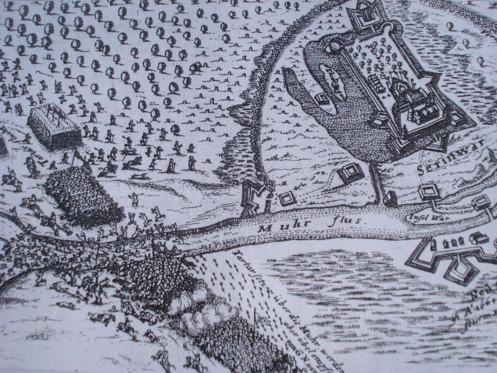 Depiction of the siege of Novi Zrin Castle (Medjimurje County, Croatia) by the Ottomans (5th June-7th July 1664) - author unknownHrvatski: Prikaz turske opsade utvrde Novi Zrin, Međimurje, Hrvatska (5.lipanj-7.srpanj 1664.) nepoznatog autora